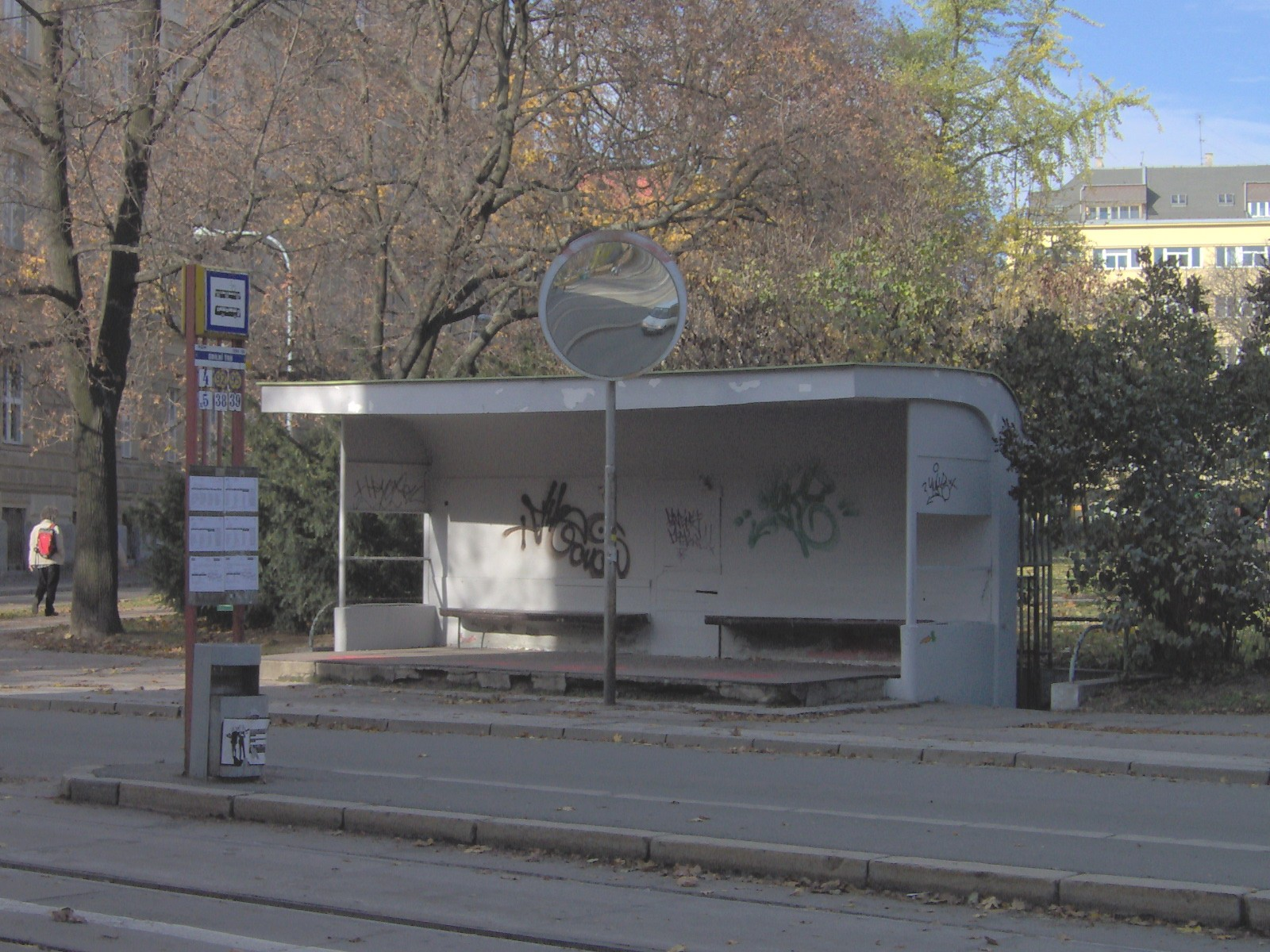 Tram track in Údolní street, Obilní trh stop